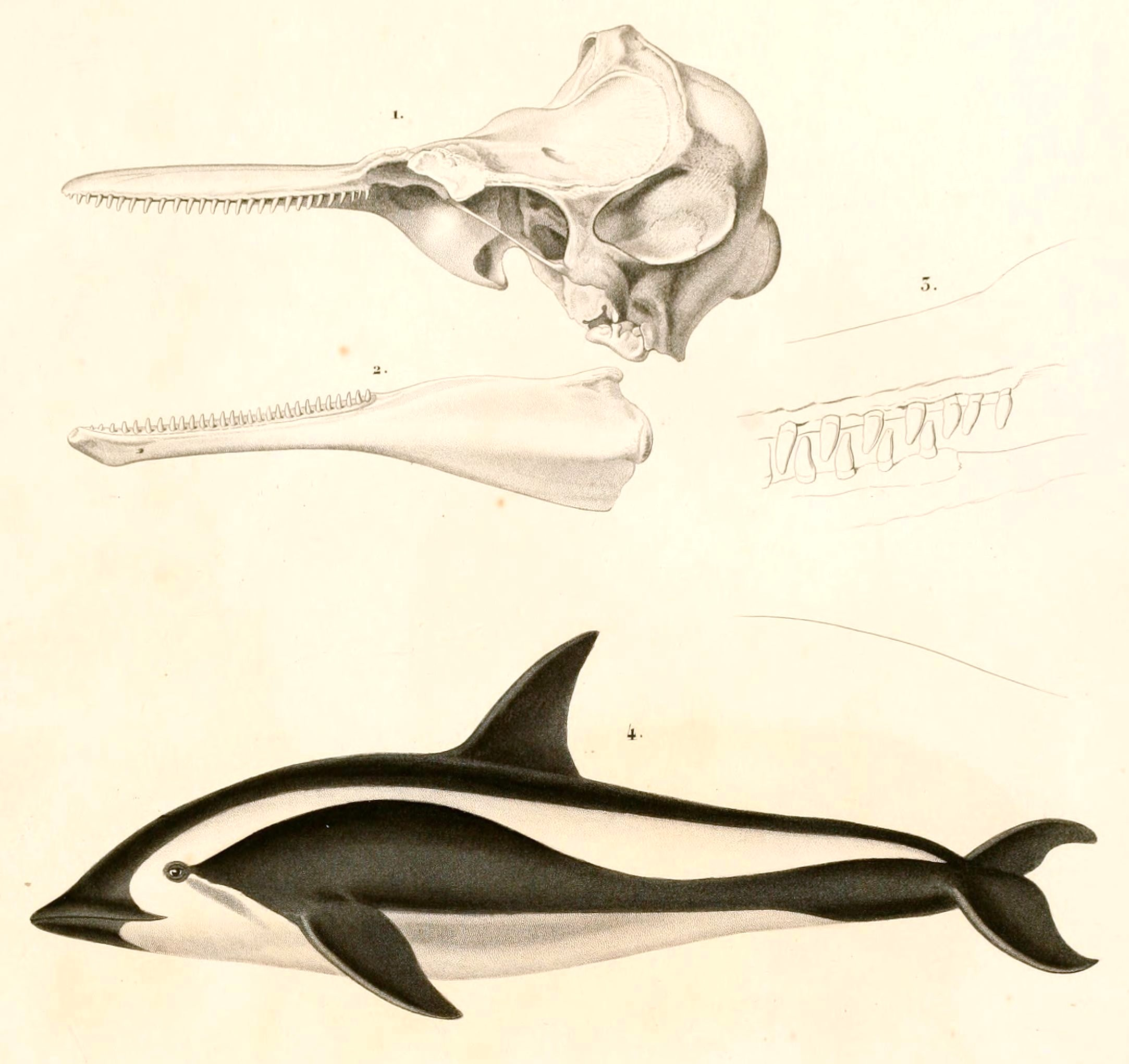 « Delphinus cruciger » = Lagenorhynchus cruciger (Hourglass dolphin)